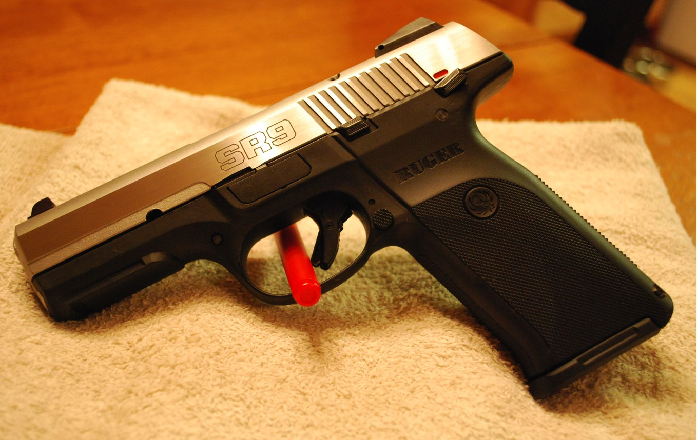 Ruger SR9 autoloader pistol chambered in 9x19mm.